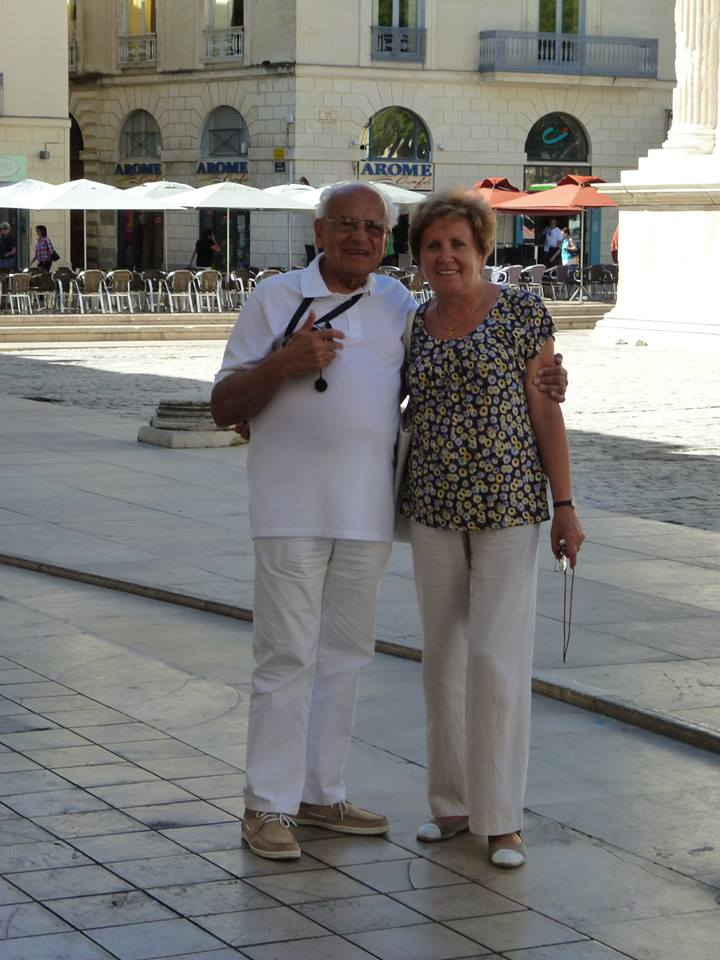 Otto Solymosi